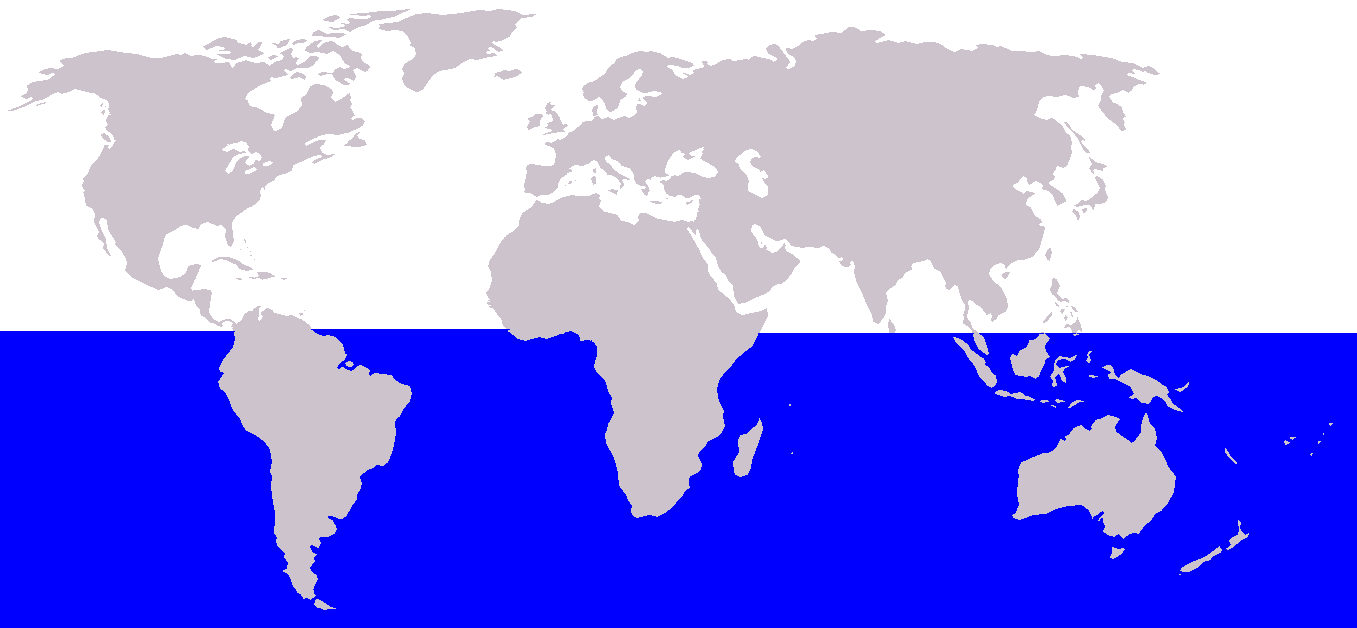 Cetacea_range_map_Minke_Whale. User:Pcb21 after User:Vardion, See Wikipedia:WikiProject Cetaceans